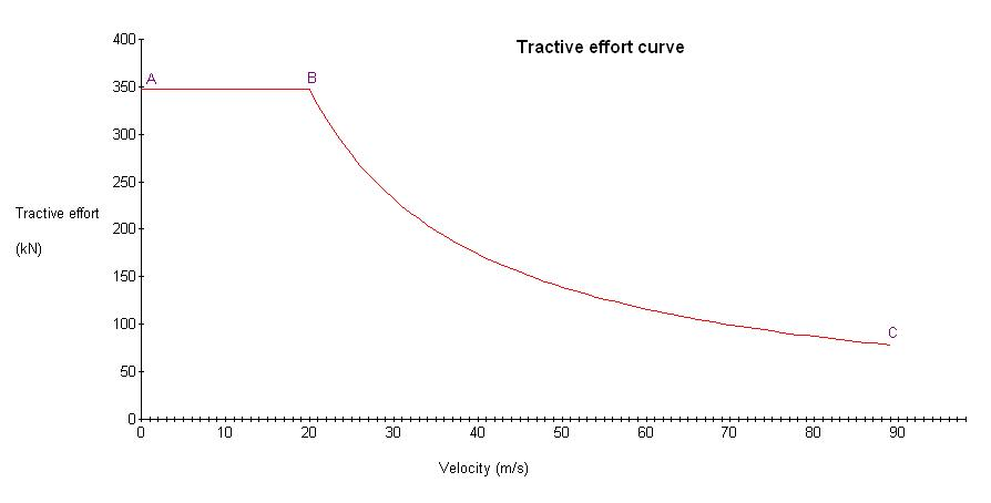 A schematic traction curve (Force verses velocity for a power limited system eg diesel or electric rail locomotive) created specifically for used in the wikipedia article Tractive effort (created using microsoft software including works spreadsheet, and MS painy.)